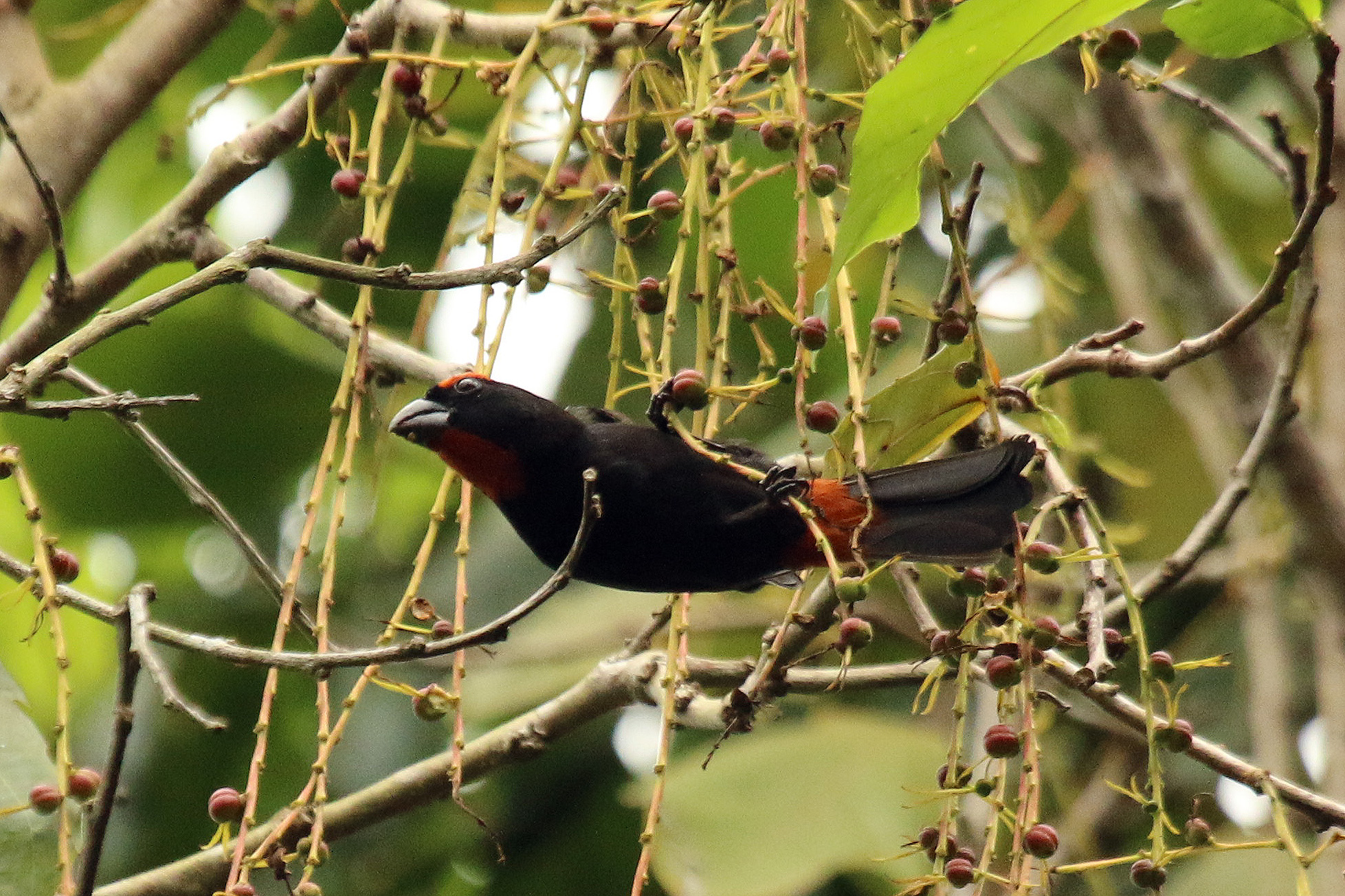 Greater antillean bullfinch (Loxigilla violacea ruficollis), Jamaica